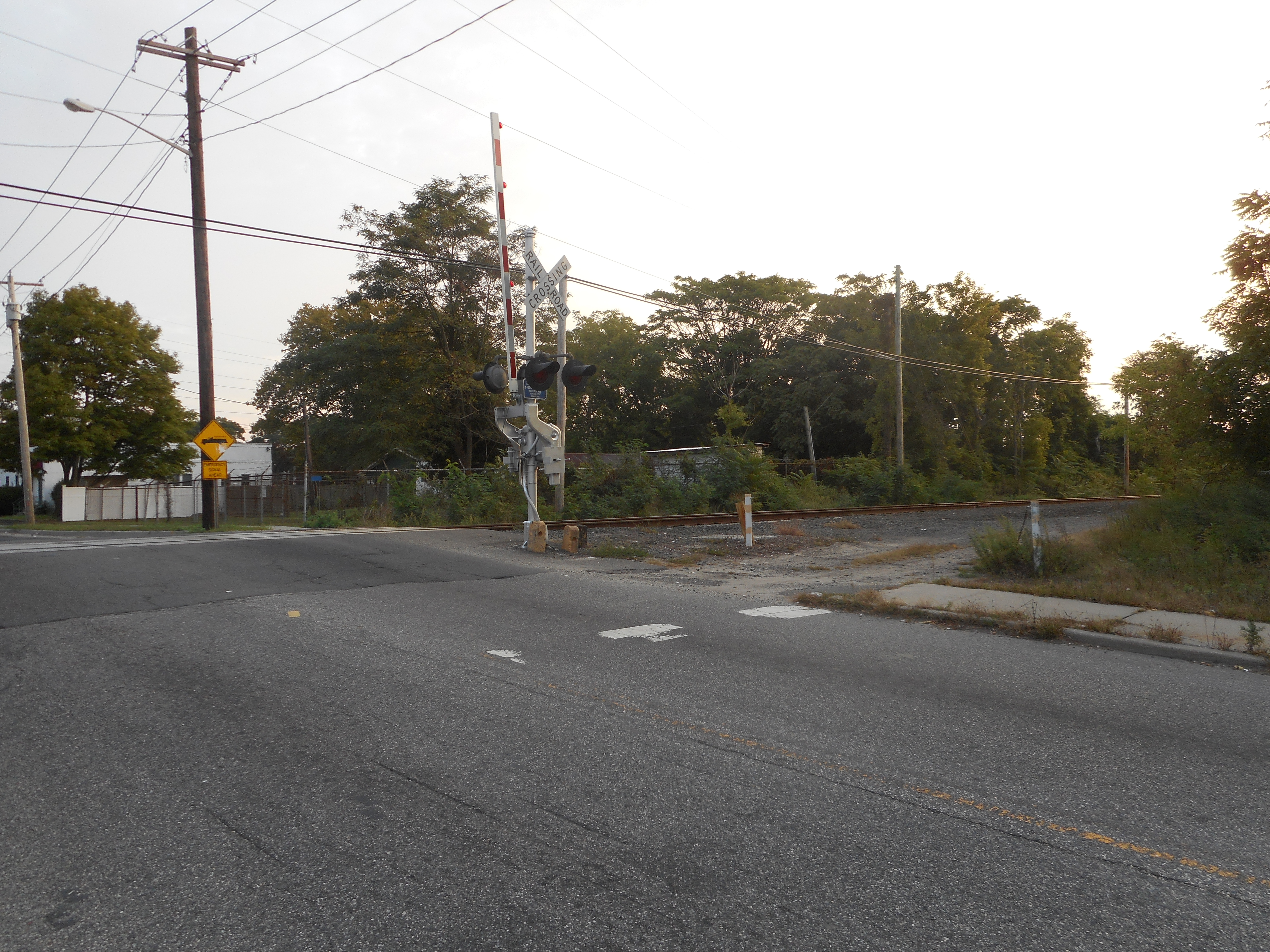 The former site of the entrance to the Holtsville Long Island Rail Road station in Holtsville, New York, from the Town of Islip side of the Waverly Avenue grade crossing.